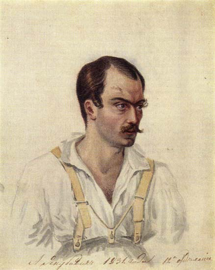 Russian Decembrist A. I. Jakubovich